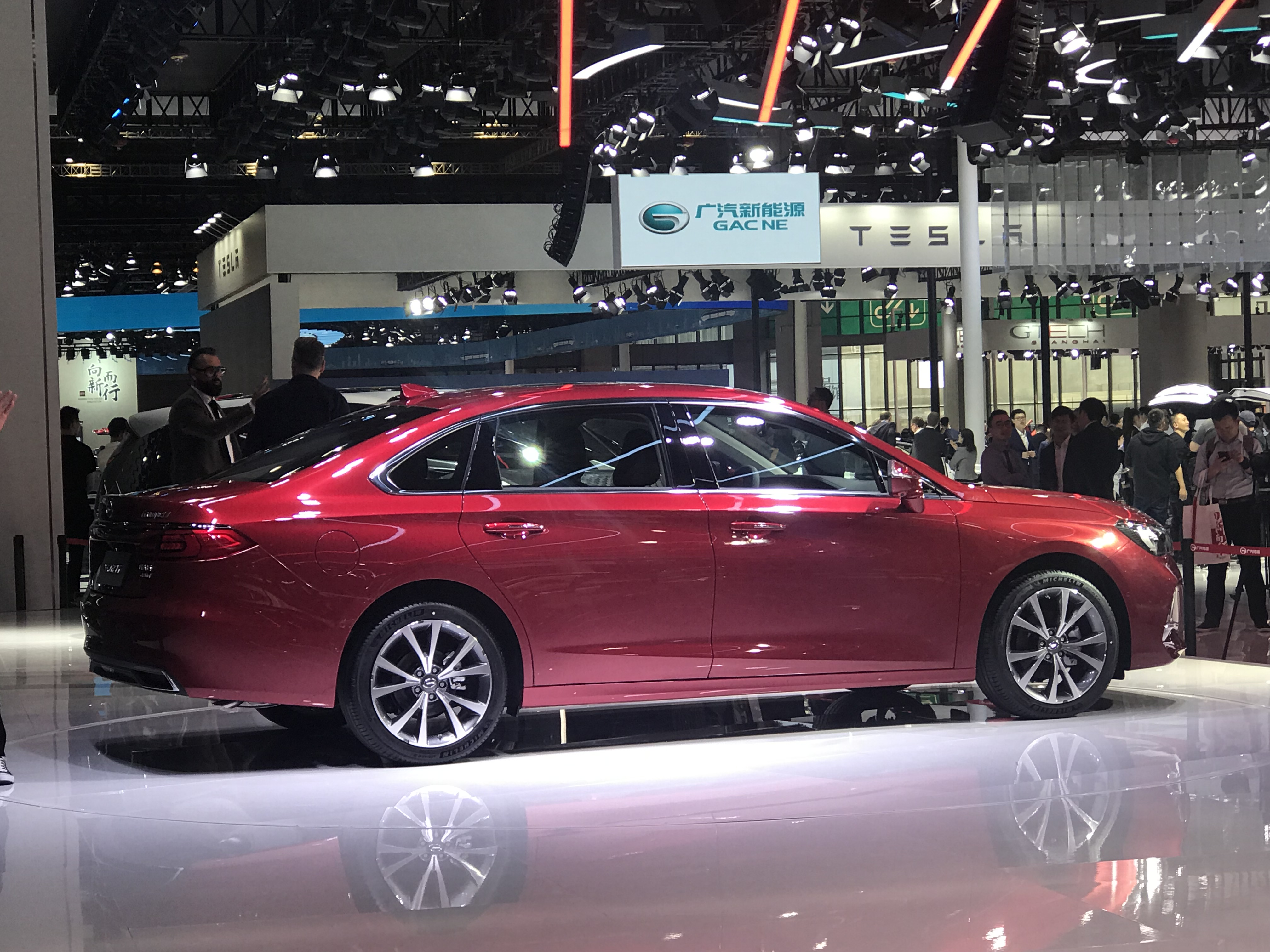 Trumpchi GA6 second generation